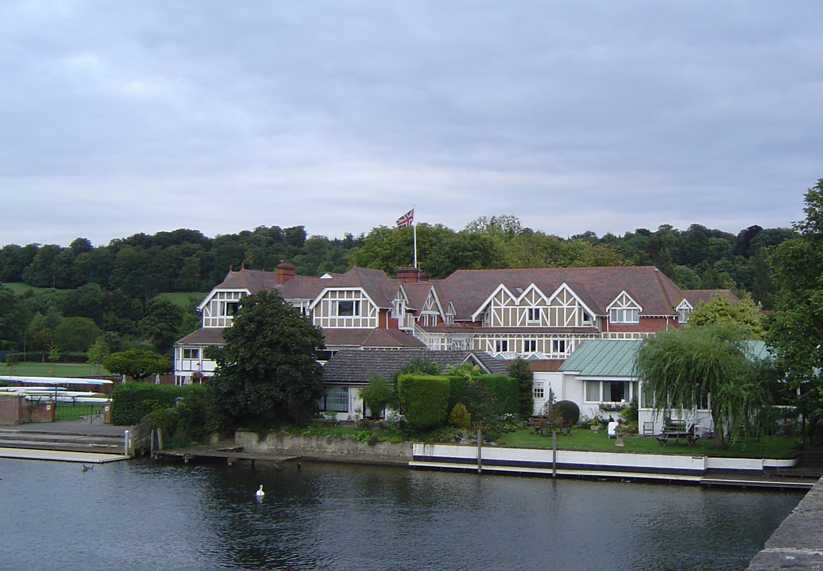 Leander Club buildings from Henley Bridge